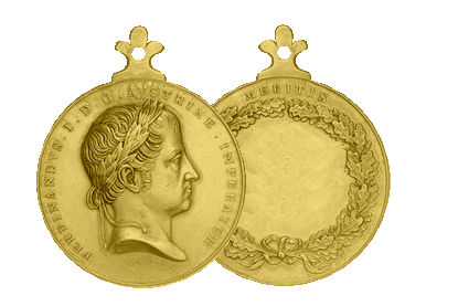 Austrian Medals early 19th century